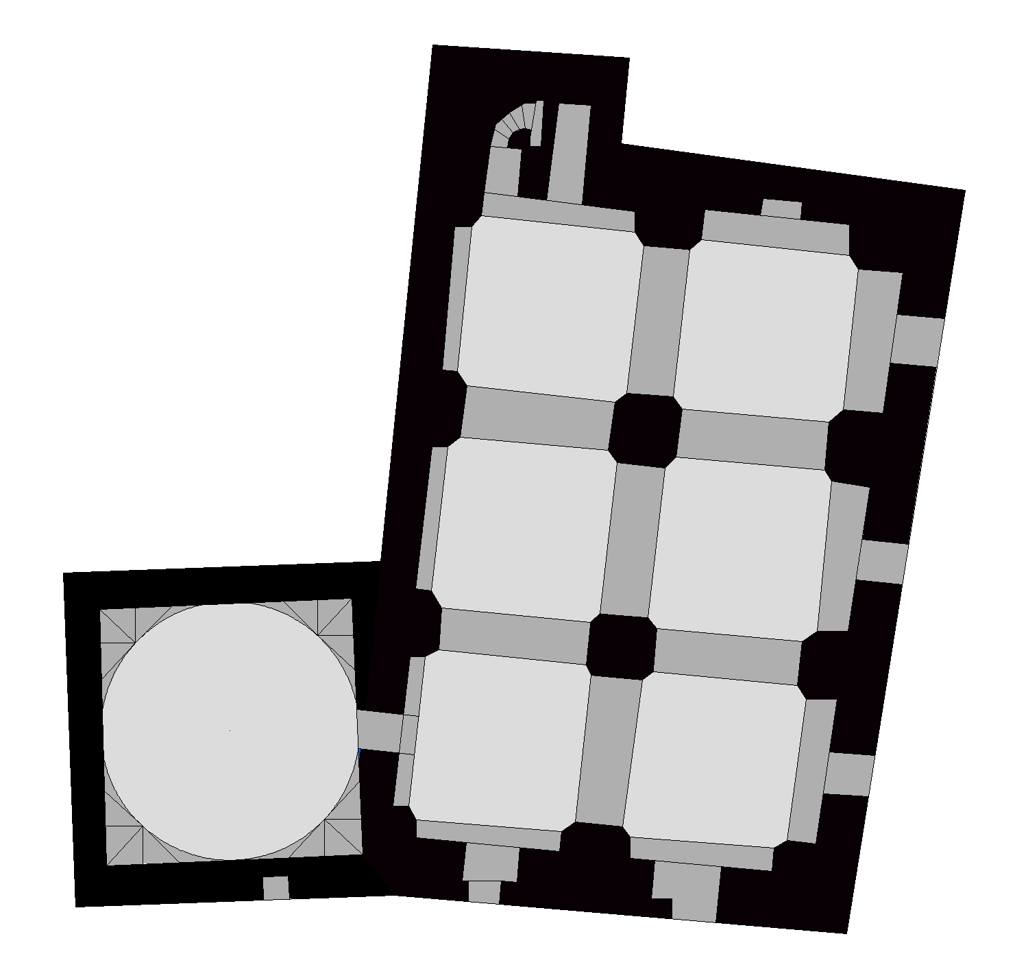 Plan of Mausoleum of Sheik Chorassan, Source: Corvina Kiadó, Ilona Turánsky, Károly Gink: Aserbaidschan - Paläste, Türme, Moscheen. Budapest 1980, deutsch von Tilda und Paul Alpári.